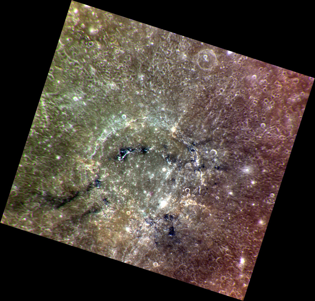 Mozart crater on Mercury. Approximate color representation combining three images acquired by MESSENGER Wide Angle Camera (EW0248001050I, EW0248001042G, EW0248001046F) with I (996.2 nm), G (748.7 nm), and F (433.2 nm) filters. Combined in GIMP software as RGB (Red-Green-Blue), and then rotated so that north is up. A similar image, probably from the same source images, appears in figure 9.5 (g) of Mercury: The View After MESSENGER edited by Sean C. Solomon, Larry R. Nittler, and Brian J. Anderson (Cambridge Planetary Science), which has the following caption: Enhanced color image of Mozart showing low-reflectance material (LRM) excavated in both the peak ring and as streaks with the basin ejecta. A reddish unit, likely excavated high-reflectance red plains (HRP) material, is also visible in linear patches across the rim, especially to the south. Statistics for I image: Emission Angle: 19.0 Incidence Angle: 9.1 Latitude: 8.6 Longitude: 170.1 Phase Angle: 28.1